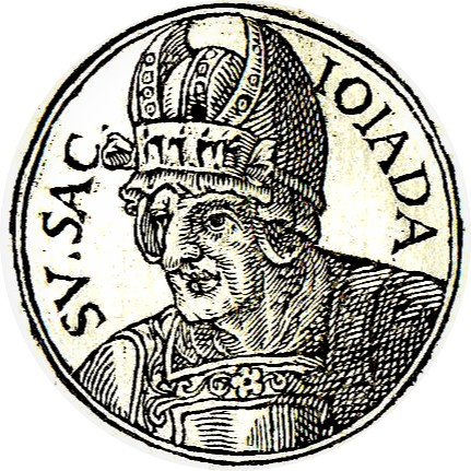 Jehoiada was the High priest during the reigns of Ahaziah, Athaliah, and Joash.